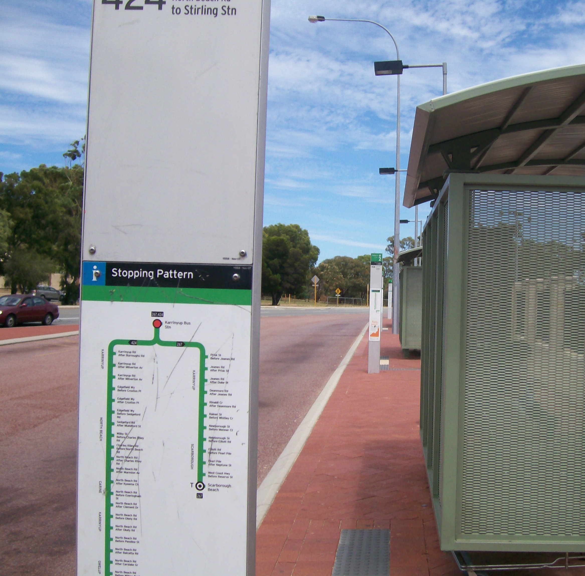 The bus stops at Karrinyup Shopping Centre.